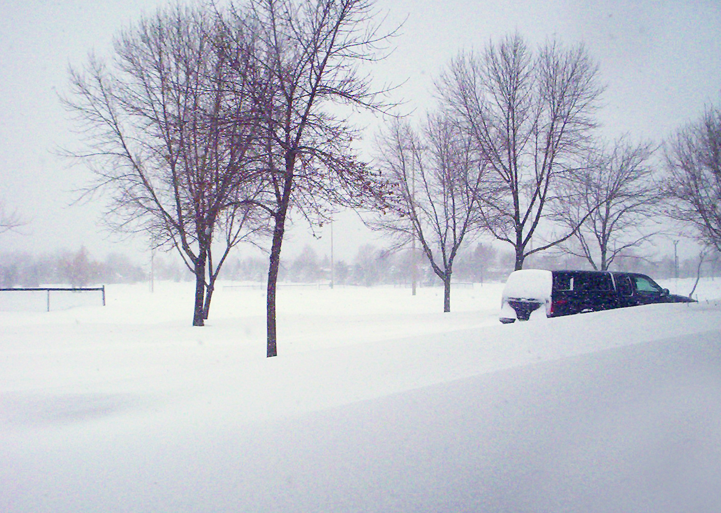 Snow drifts in Hamilton, Ontario where they received 60cm (23.6 inches) of snow, and more in other parts of the city. February, 2007. This is an edited version of File:HamiltonStorm07.jpg. The following changes were made by User:MamaGeek: Lighting improved Artifact removed from bottom right of photograph Image straightened to correspond with horizon Image cropped for visual interest